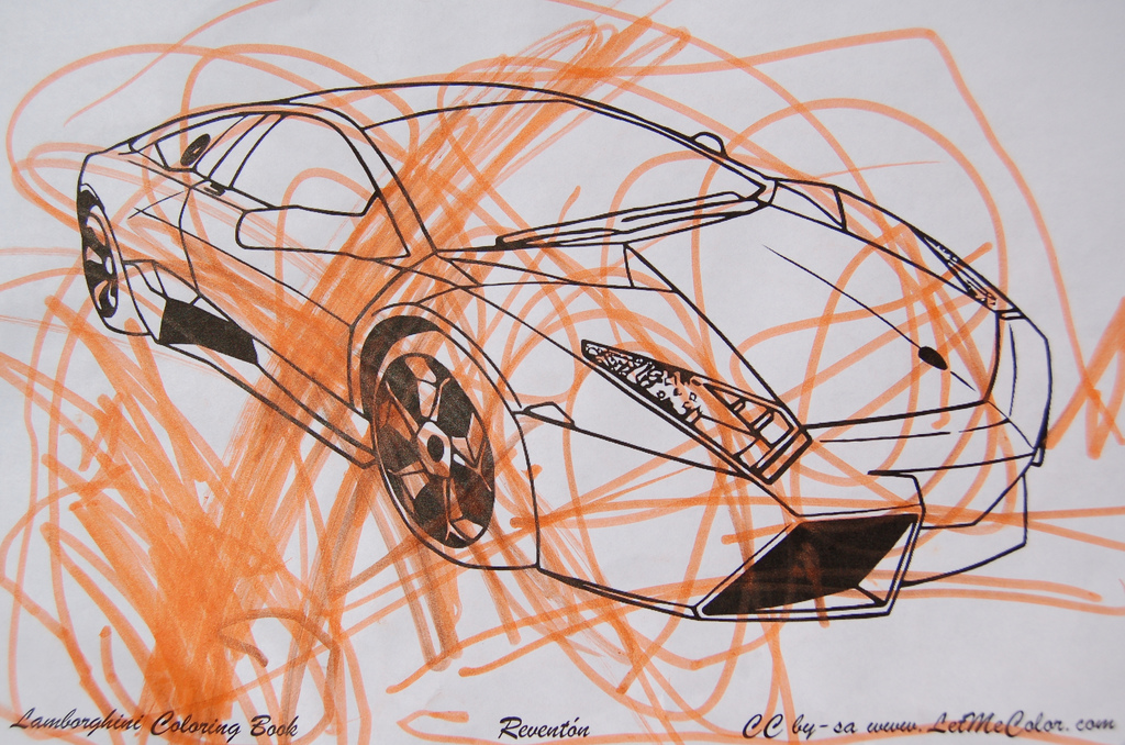 Coloring cars is great! This orange Lamborghini Reventón is the product of my daughter Marieke's final test of the Lamborghini Coloring Book. If you're into coloring cars, make shure you download the FREE Lamborghini Coloring Book here